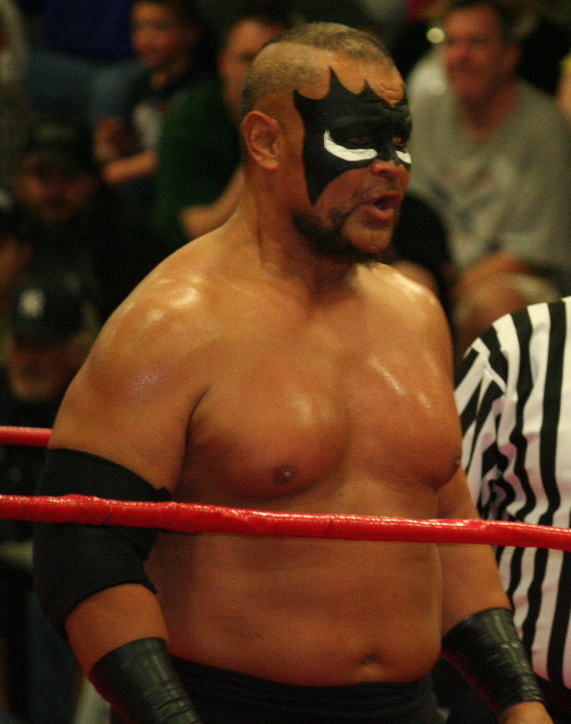 An image of professional wrestler The Barbarian. Other information This is a cropped version of a free use image from Wikimedia Commons.